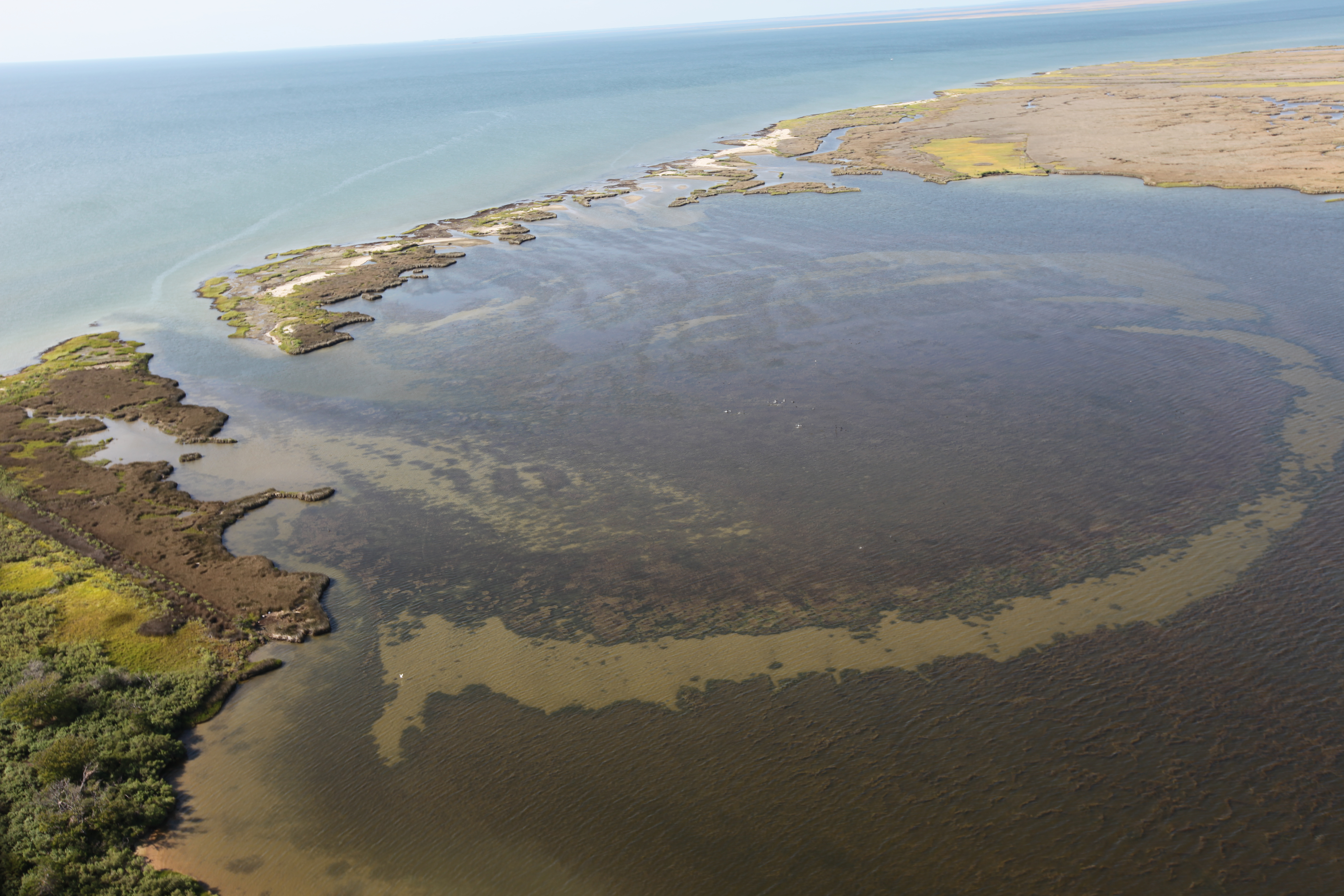 The 20,950 feet of living shoreline that will be constructed at Martin National Wildlife Refuge will protect nearly 1,200 acres of high tidal marsh which act as a buffer zone for area villages and provide habitat to the soft shell crabs many on Smith Island rely on to make their livelihood Credit: Keith Shannon/USFWS Find out more about the trip at Stay up to date on Hurricane Sandy recovery and resiliency projects at Like us on Facebook Follow us of Twitter